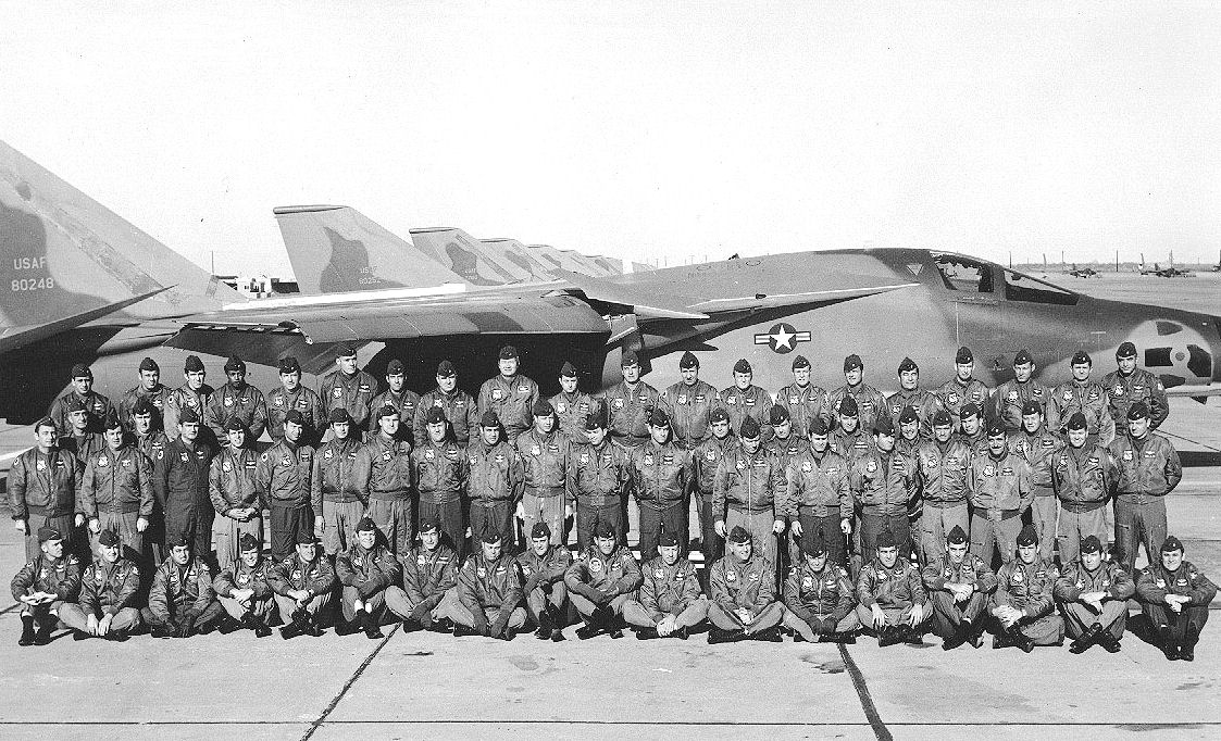 9th Bombardment Squadron - General Dynamics FB-111A 68-0248 Aircraft is now at the South Dakota Air and Space Museum, Ellsworth AFB, South Dakota